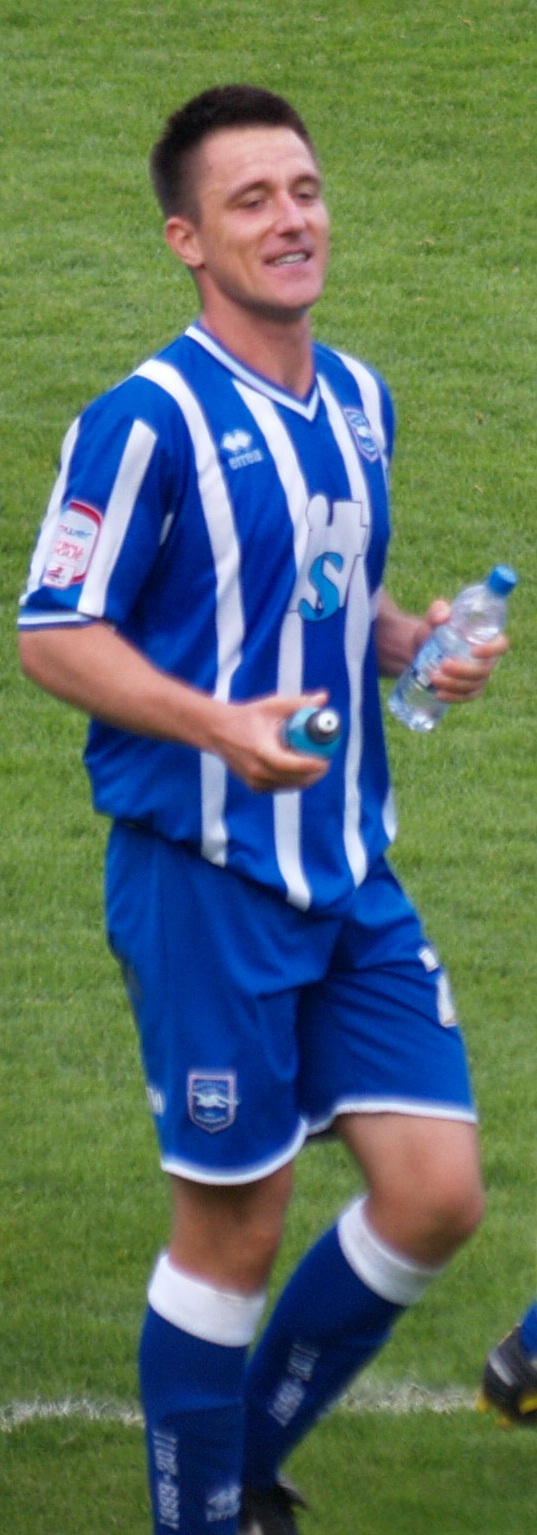 Photograph of Marcos Painter